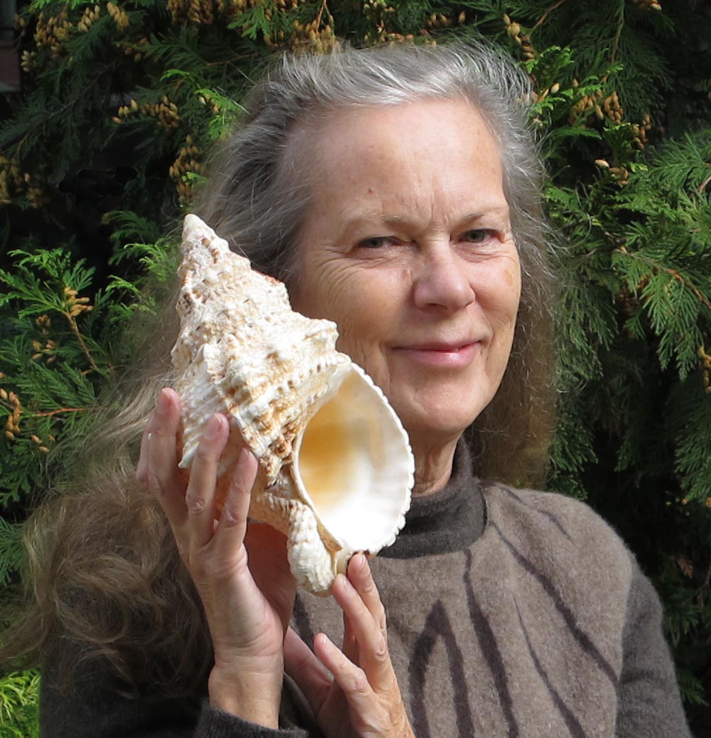 A portrait of Susan J. Hewitt (User:Invertzoo) holding a shell of the large sea snail Tutufa bubo, the giant frog snail, taken in November 2011, in NYC .